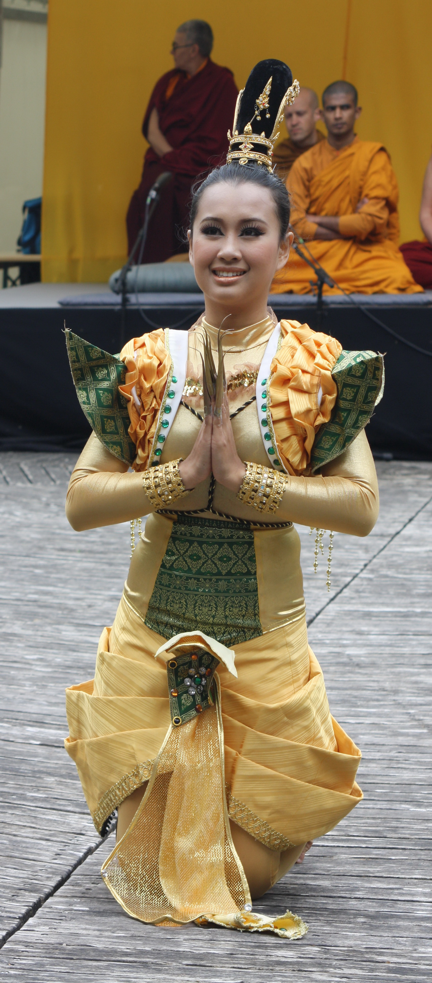 Buddhist Vesakh celebration in Munich Westpark